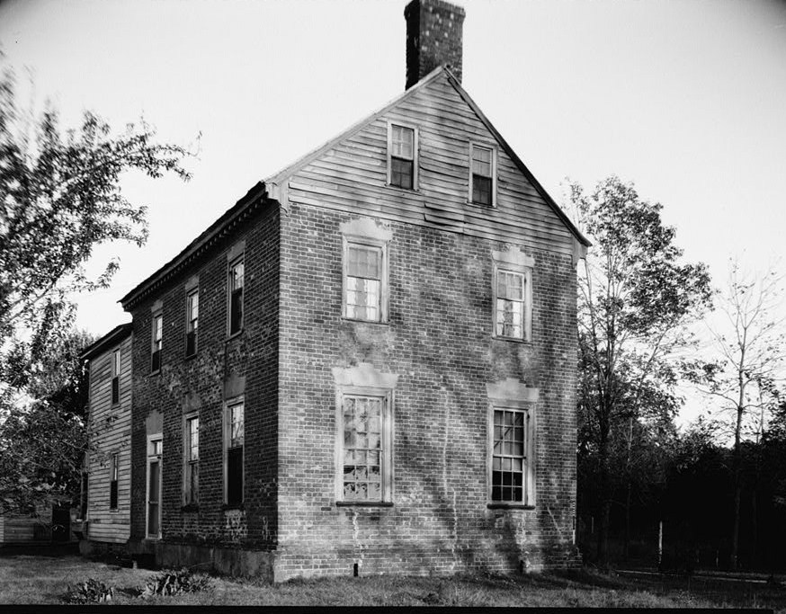 Cedar Grove, State Route 609, Providence Forge vicinity (New Kent County, Virginia) cropped HABS VA,64-PROFO.V,1-1 This file comes from the Historic American Buildings Survey (HABS), Historic American Engineering Record (HAER) or Historic American Landscapes Survey (HALS). These are programs of the National Park Service established for the purpose of documenting historic places. Records consist of measured drawings, archival photographs, and written reports. When reusing please credit: Library of Congress, Prints & Photographs Division, VA-802 This tag does not indicate the copyright status of the attached work. A normal copyright tag is still required. See Commons:Licensing for more information. This work is in the public domain in the United States because it is a work prepared by an officer or employee of the United States Government as part of that person’s official duties under the terms of Title 17, Chapter 1, Section 105 of the US Code. See Copyright. Note: This only applies to original works of the Federal Government and not to the work of any individual U.S. state, territory, commonwealth, county, municipality, or any other subdivision. This template also does not apply to postage stamp designs published by the United States Postal Service since 1978. (See § 313.6(C)(1) of Compendium of U.S. Copyright Office Practices). It also does not apply to certain US coins; see The US Mint Terms of Use. This file has been identified as being free of known restrictions under copyright law, including all related and neighboring rights. Object location37° 29′ 07″ N, 77° 06′ 57″ W